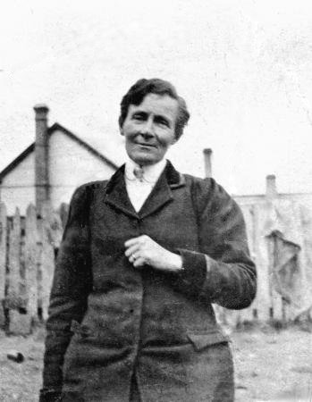 Amy Bock, confidence trickster of the early 20th century. Photo from 1908/1909, taken from the Dictionary of New Zealand Biography published by New Zealand's Ministry of Culture and Heritage [1]. NOTE: This image is public domain if the unknown photographer died before 1956 (which is likely). See Wikipedia:Copyright situations by country, NZ copyright is life+50. This New Zealand work is in the public domain in New Zealand, because its copyright has expired or it is not subject to copyright. According to the New Zealand Copyright Act of 1994 as elaborated on by the Standing Committee on Copyright of the Library and Information Association of New Zealand (LIANZA), as of May 2011: Type of material Copyright has expired if ... A For photographs, manuscripts, archives, music scores, maps, paintings, and drawings published anonymously, under a pseudonym or the creator is unknown:photo taken or work published prior to 1 January 1968 (50 years ago) B Any works by the Crown (see Crown copyright)dated 1944 or earlier C Published works1 by the Crown after 1945No works1 until 2045 D For photographs, manuscripts, archives, music scores, maps, paintings, and drawings (except A-C)Creator died before 1 January 1968 (50 years ago) E For oral histories, music, computer-generated work and spoken word sound recordingsReleased before 1 January 1968 (50 years ago) 1 Some government publications are not subject to copyright, including bills, acts, regulations, court judgments, royal commission and select committee reports, etc. See references [2] or [3] for the full